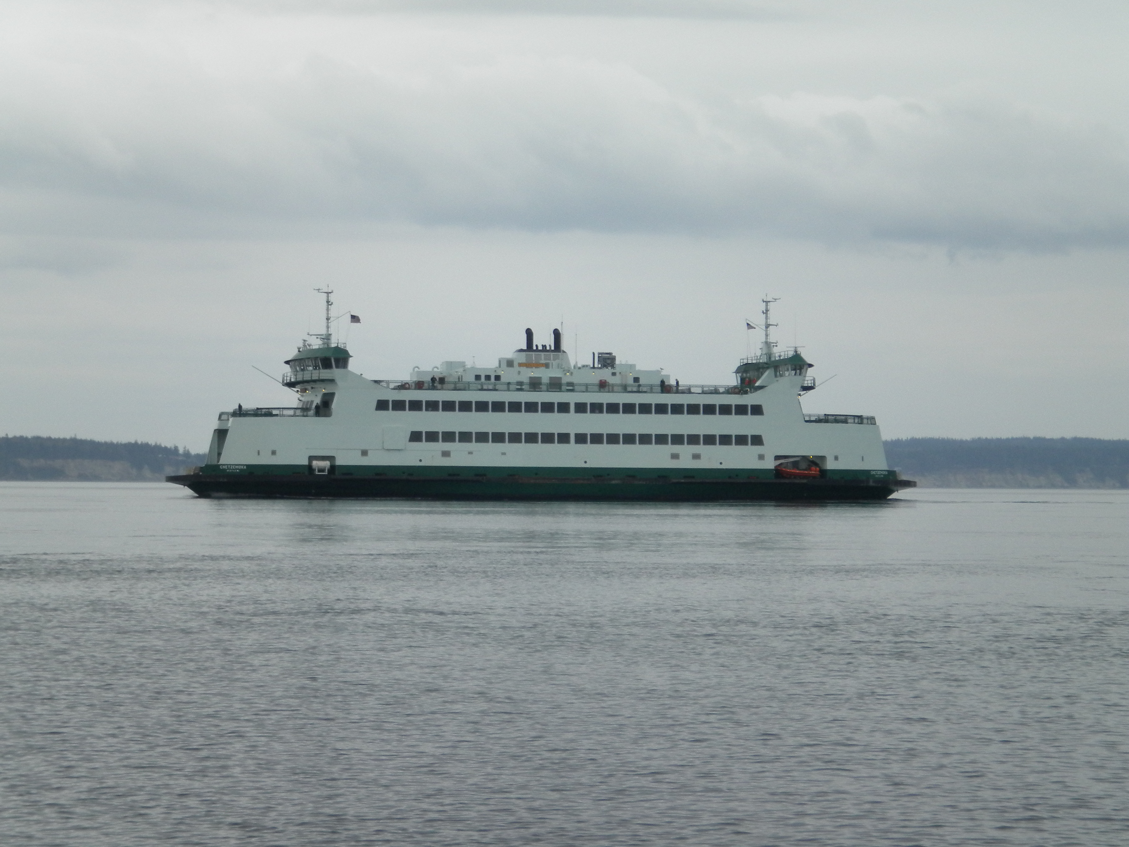 MV Chetzemoka arrives at Keystone Harbor in July 2011.